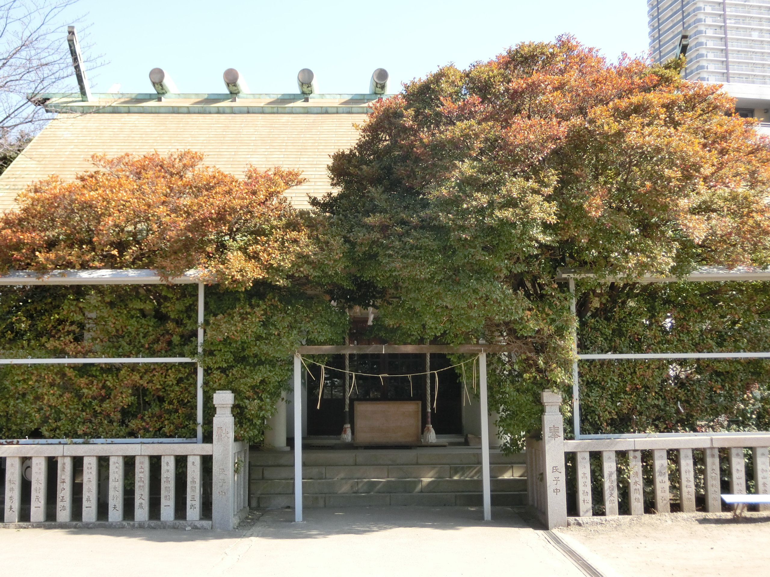 Ichinomiya Jinja (Yokohama)